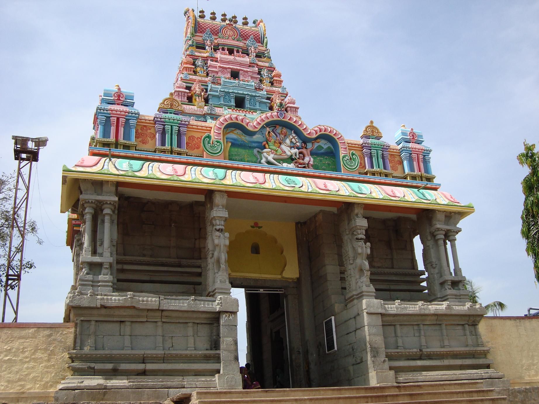 Mylara Lingeshwara Temple at Mylara, Bellary District, North Karnataka, India Source and Author : Manjunath Doddamani, Gajendragad / Hubli, Karnataka(India)